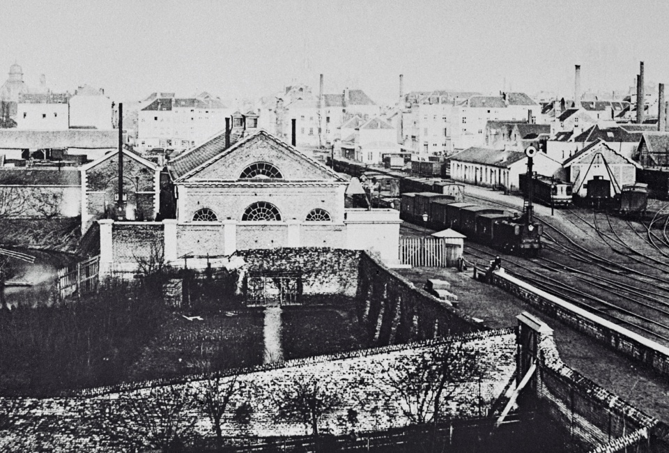 Photograph of Bogard Station in Brussel, by Louis Ghémar